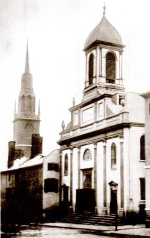 Church of the Holy Cross, Tontine Crescent, ca.1850s, Boston